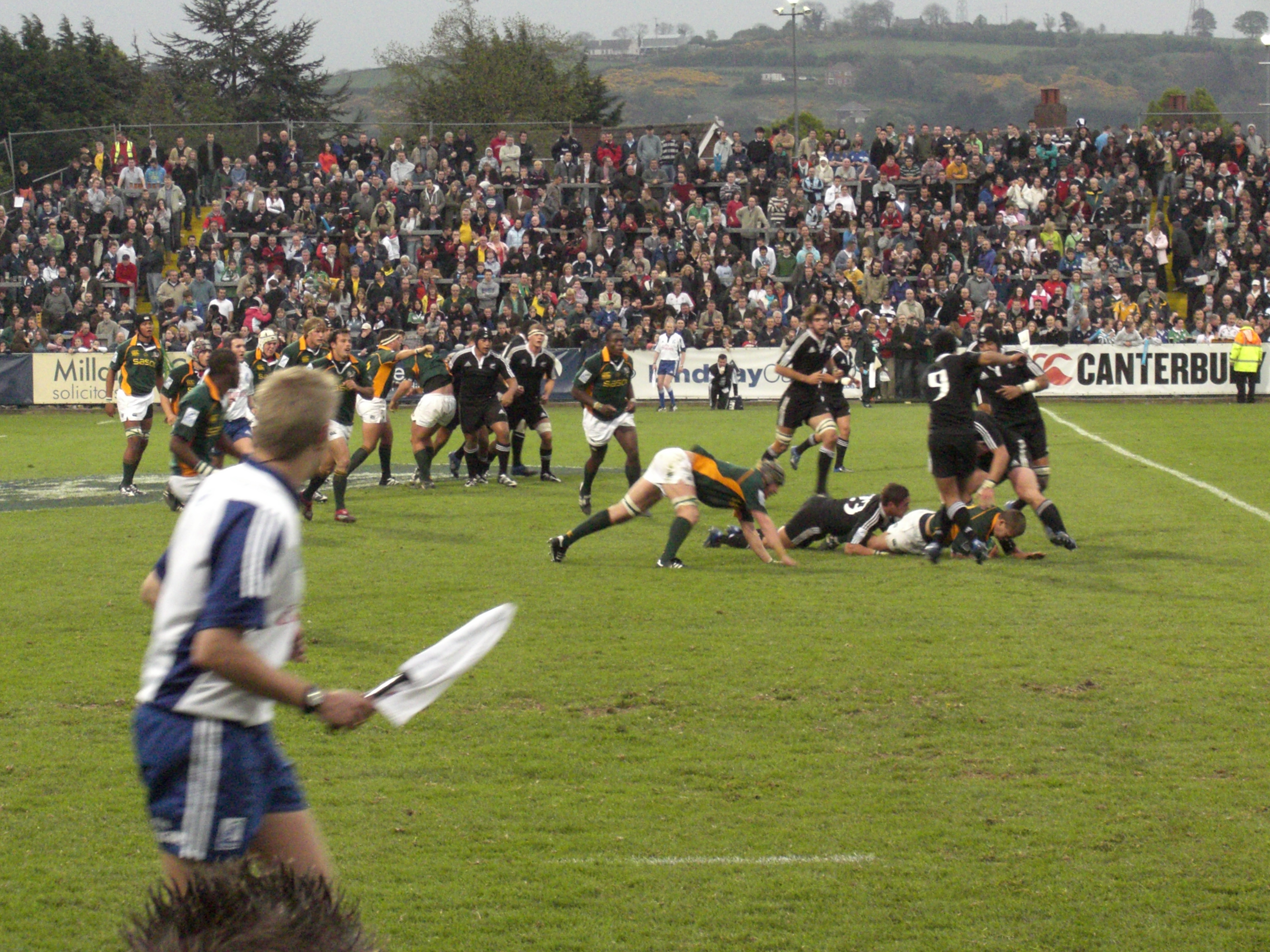 My photo taken at the 2007 under 19 Rugby World Cup Final in Belfast